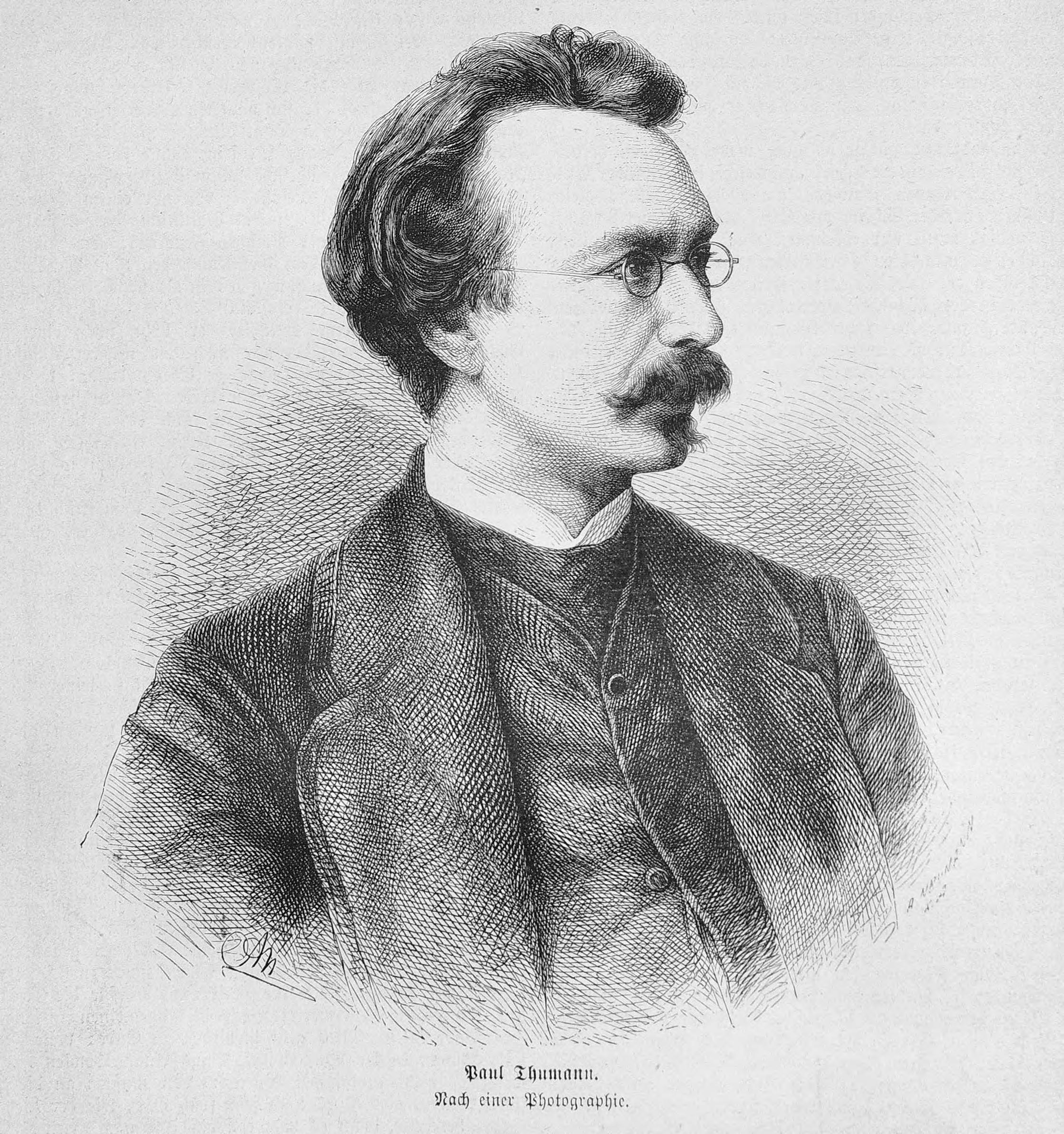 caption: "Paul Thumann Nach einer Photographie."